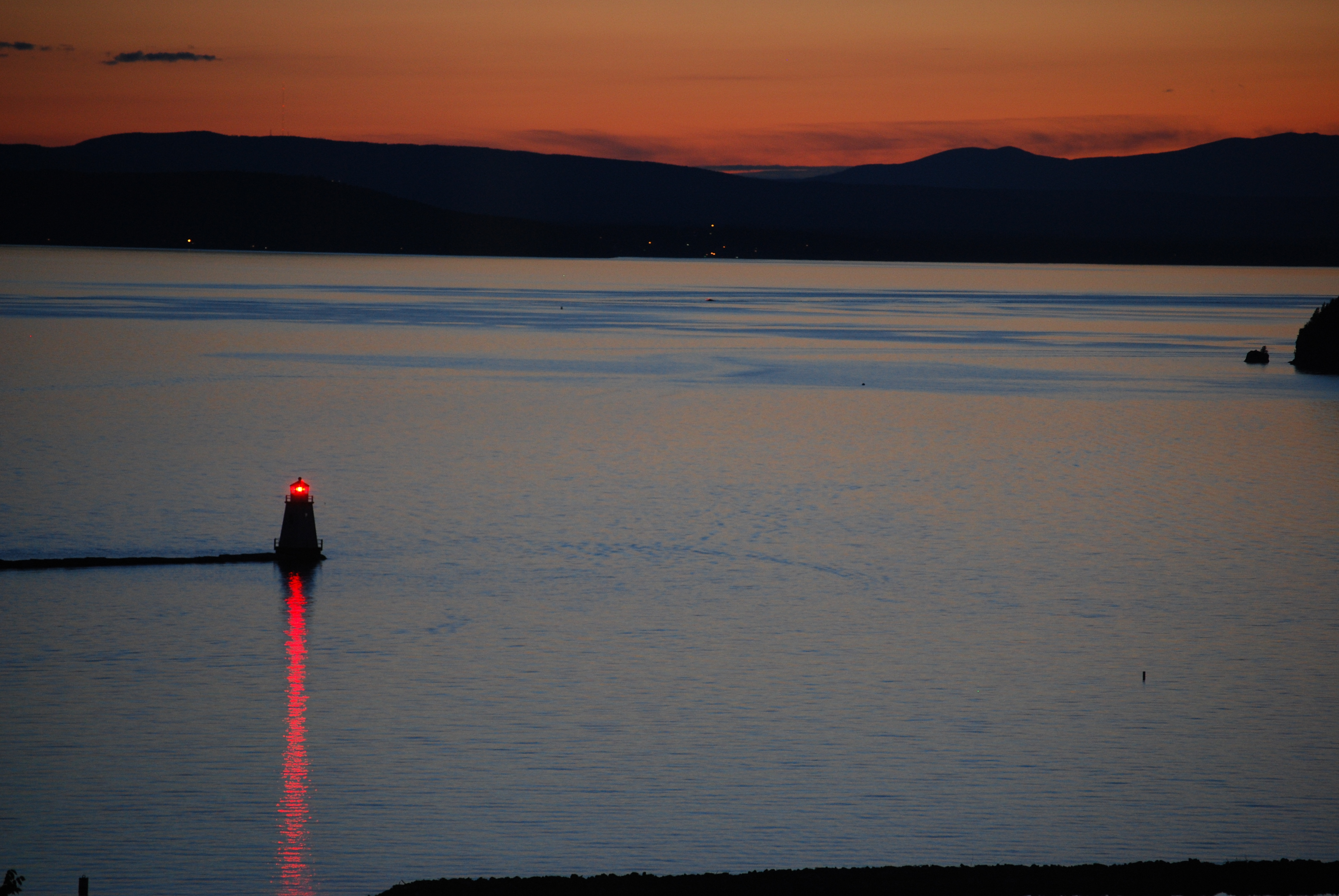 Sunset on Lake Champlain, taken from hotel window in Burlington, VT, USA